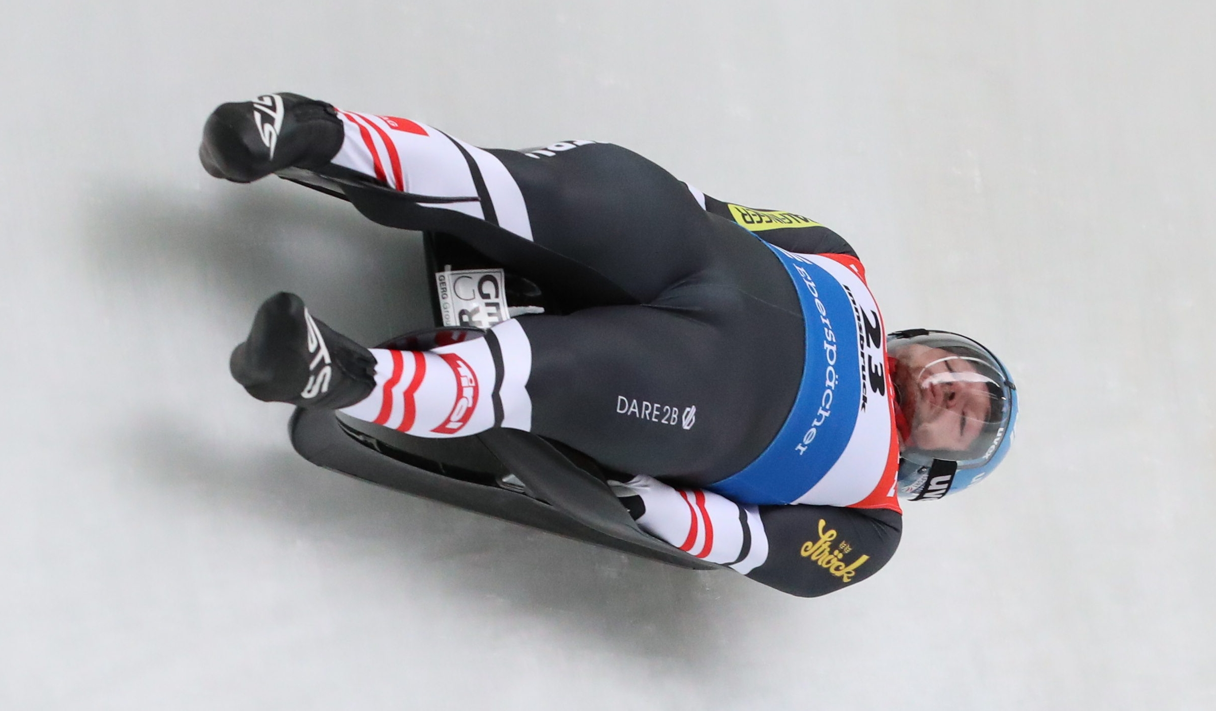 Men's World Cup race at the 2019/20 Luge World Cup in Innsbruck-Igls